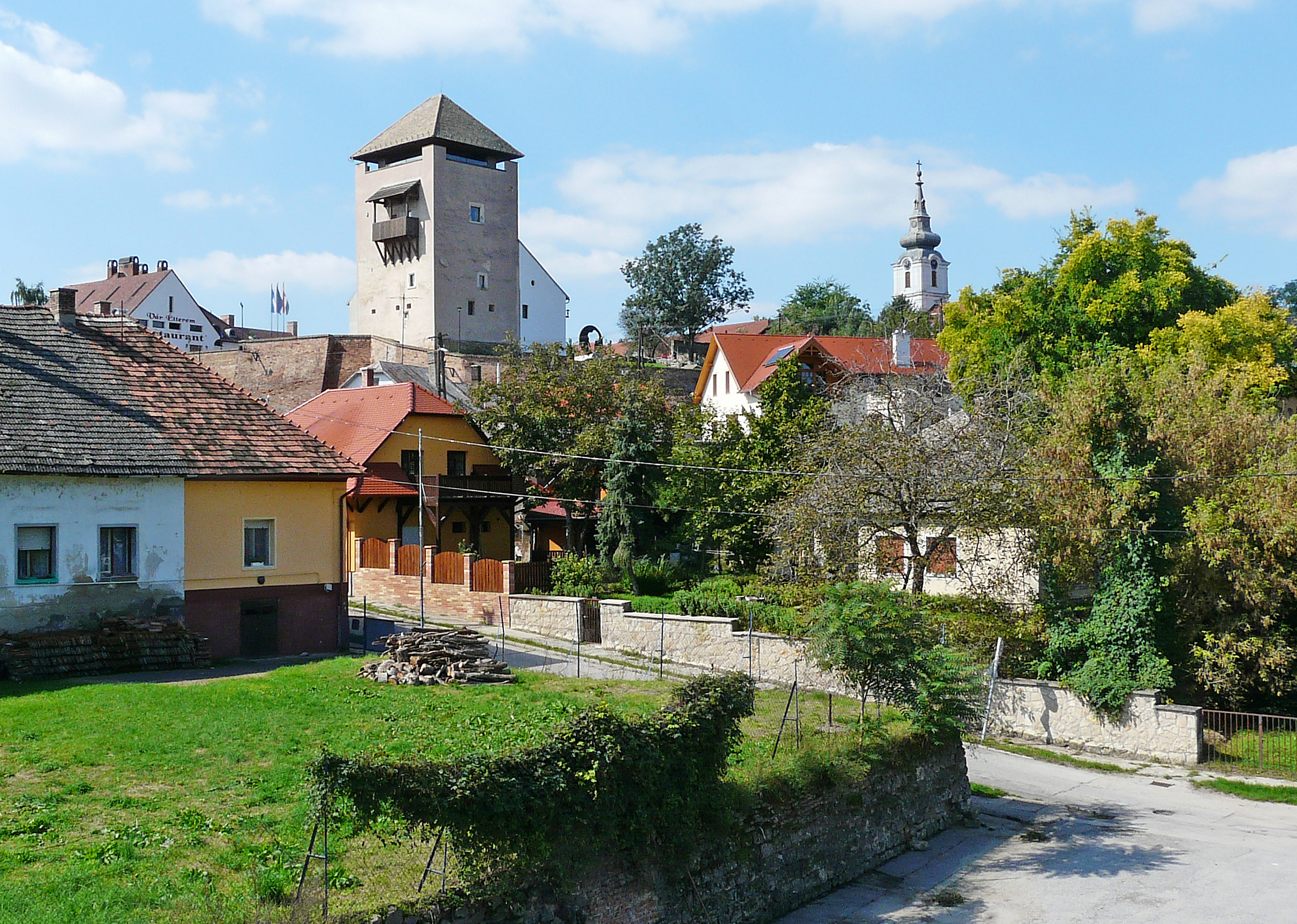 Dunaföldvár, landscape This is a photo of a monument in Hungary. Identifier: 8605